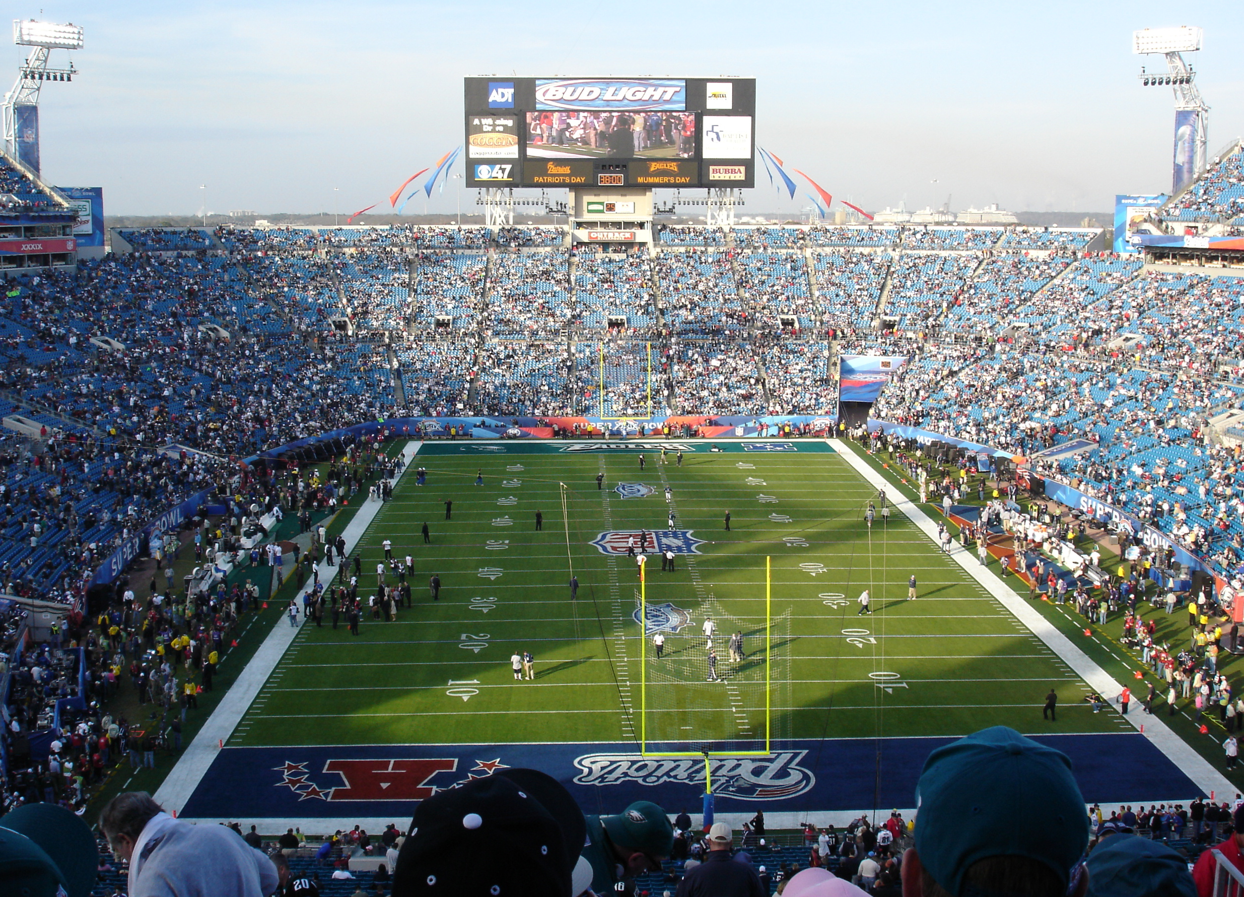 Before Super Bowl XXXIX, Alltel Stadium, Jacksonville, FL, Feb 7, 2005.